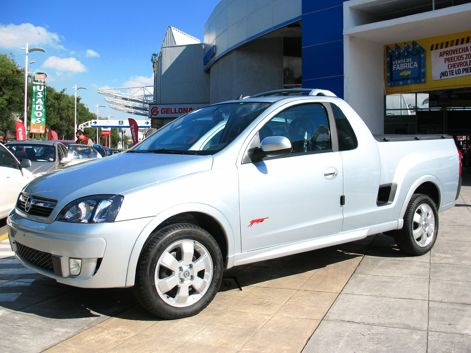 2009 Chevrolet Montana